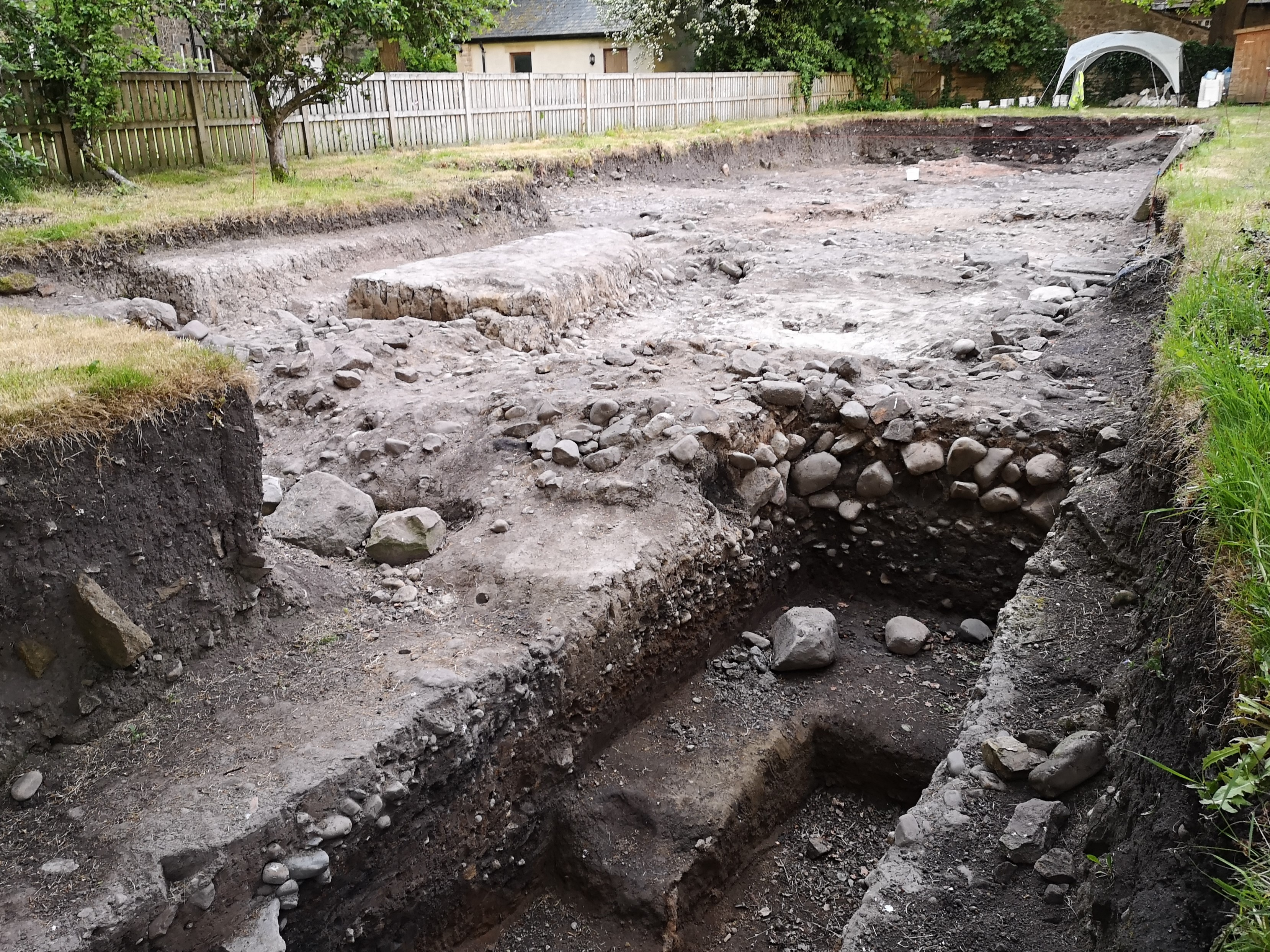 Archaeological excavation work near the granaries at Ribchester, Lancashire.